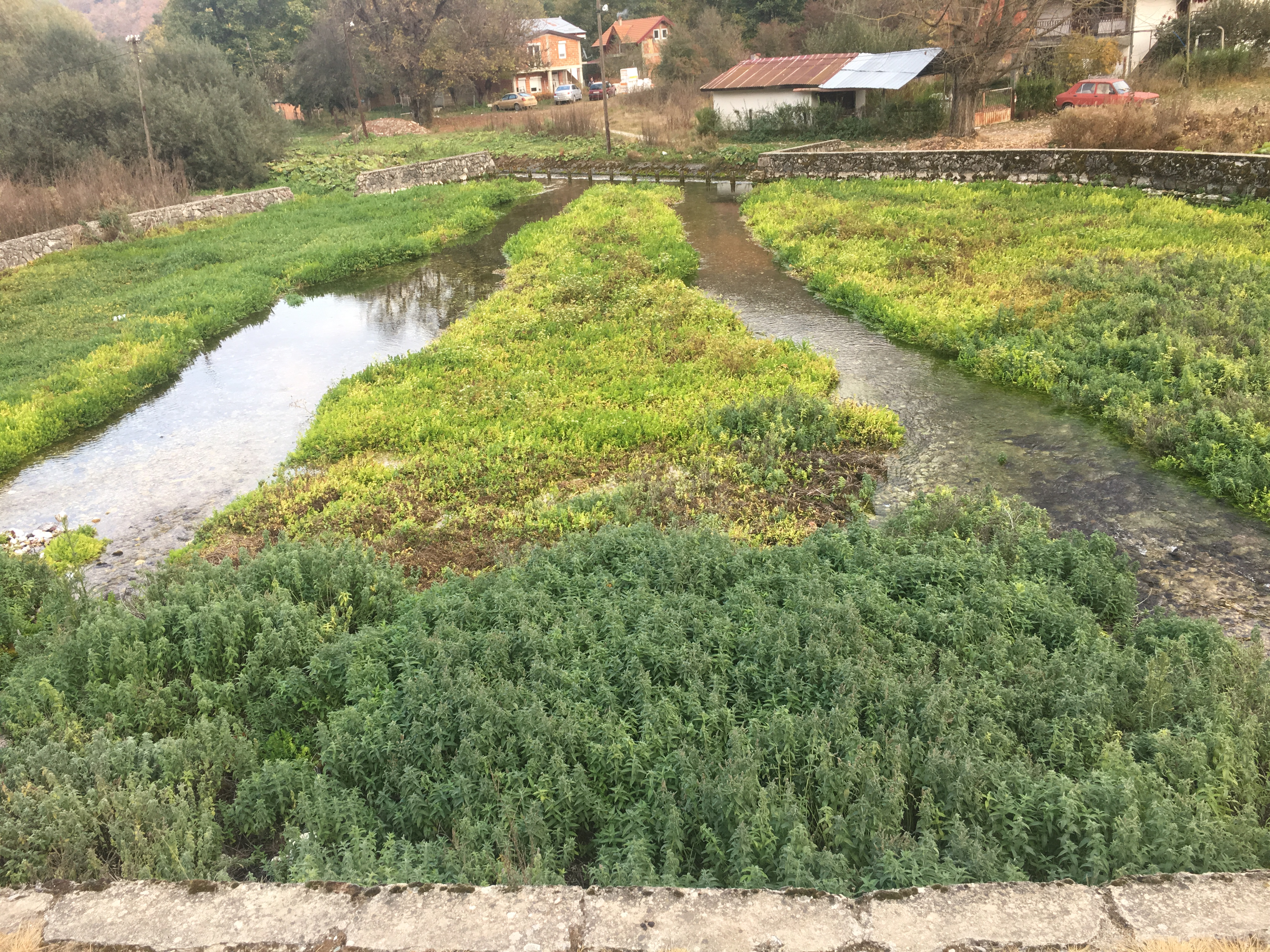 Wikiexpedition to Kopačka